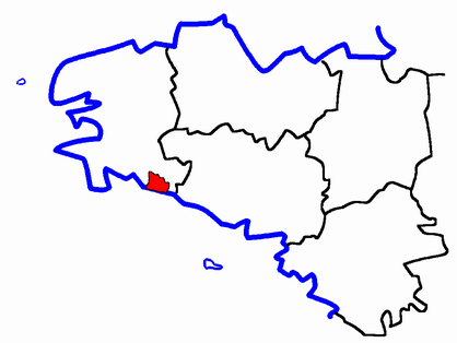 Description: Map for localisazion of cantons of Bretagne region in France Source: made by Hervé Tigier in april 2005 from another large map (published in 1990)